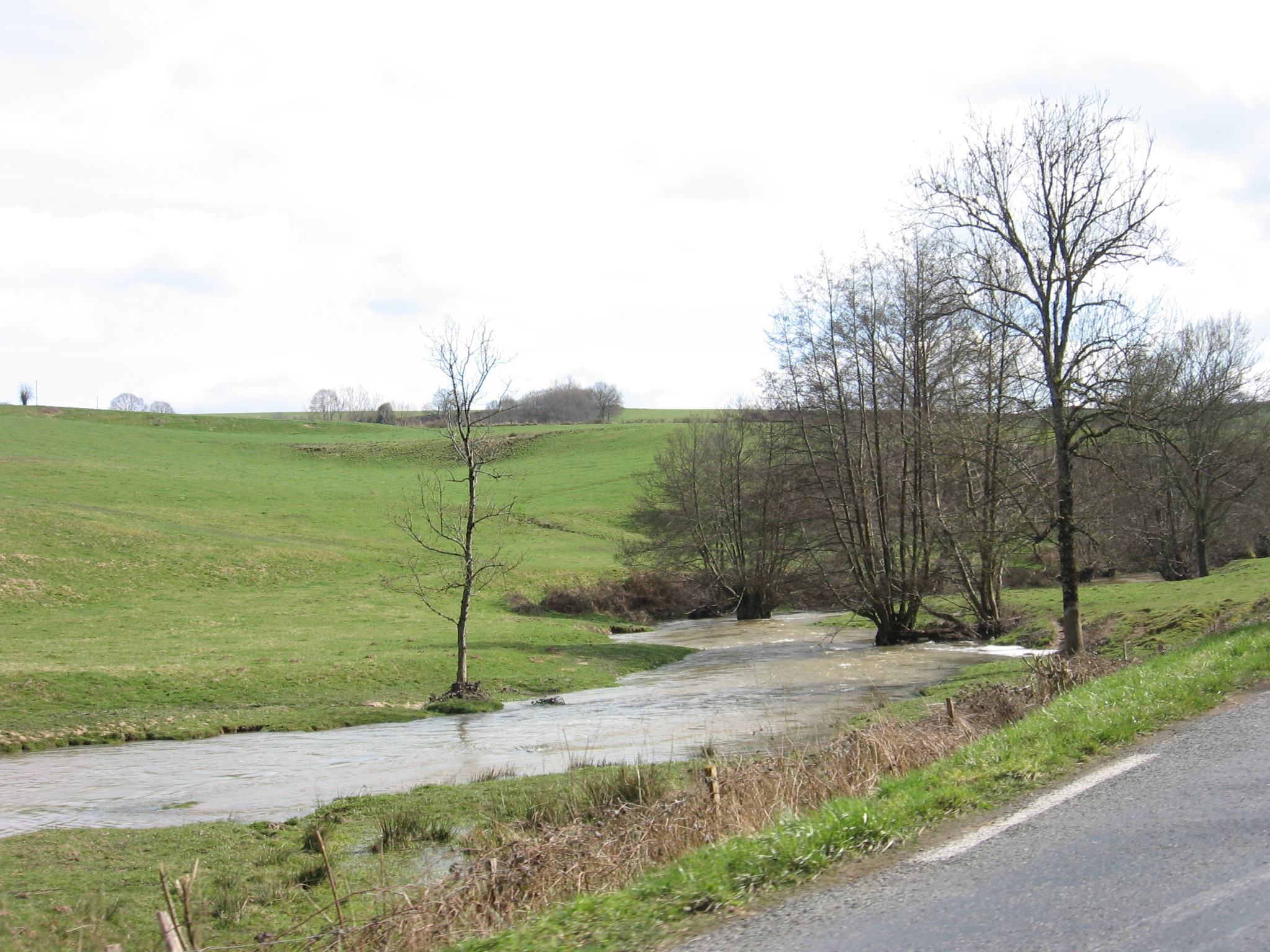 Somme (sub. Loire), south of Luzy